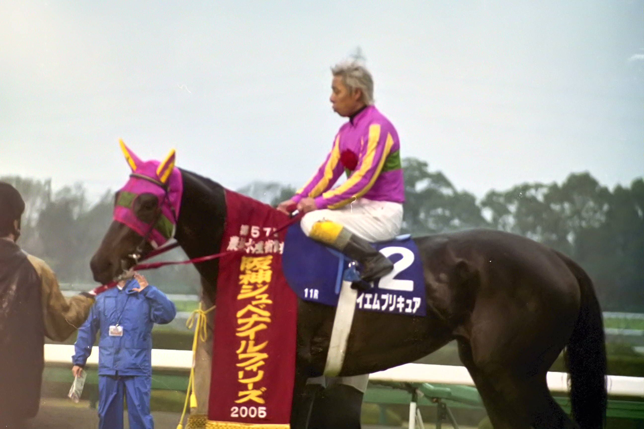 T M Precure at the 57th Hanshin Juvenile Fillies